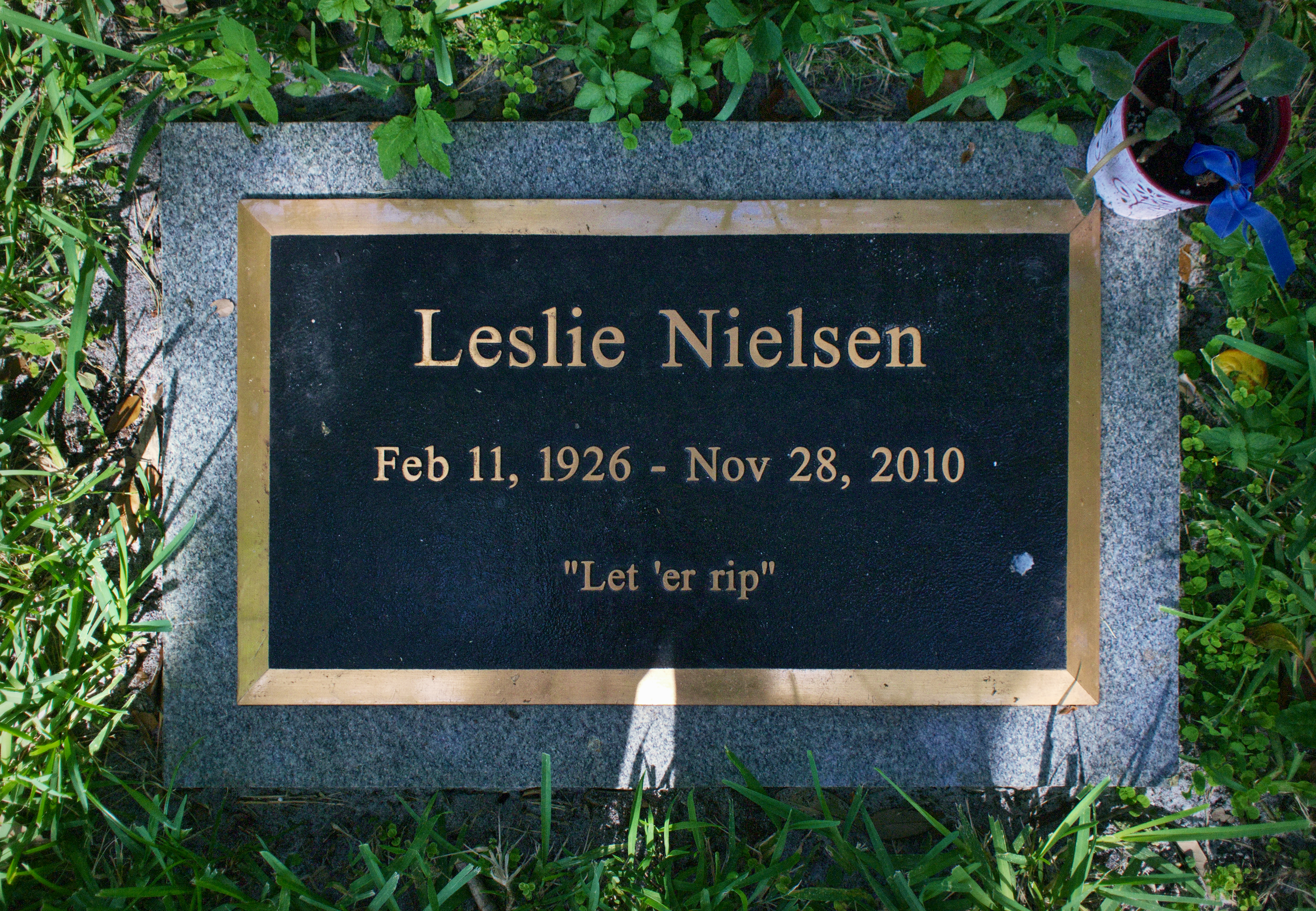 View of Leslie Nielsen's headstone in Evergreen Cemetery, Fort Lauderdale, FL